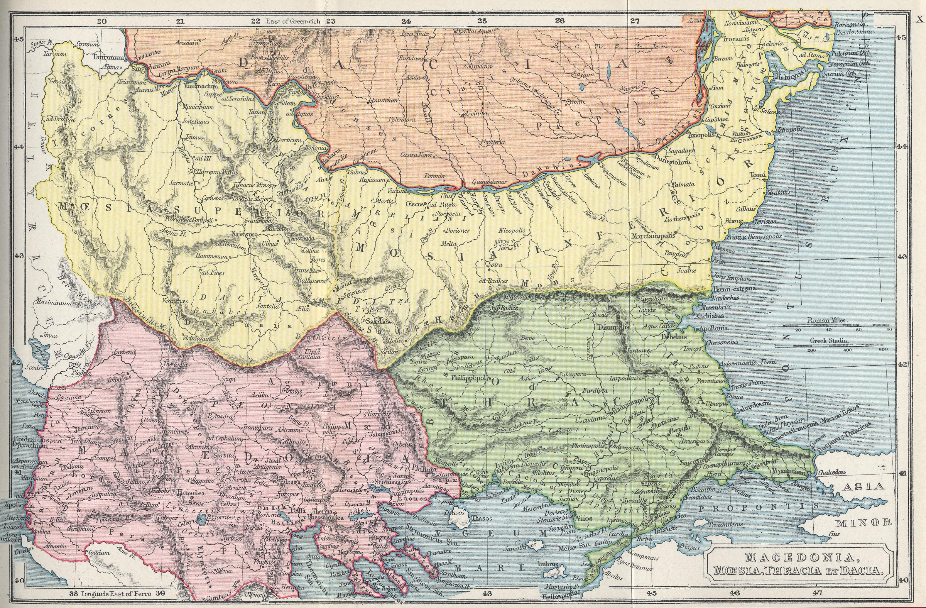 The Atlas of Ancient and Classical Geography by Samuel Butler